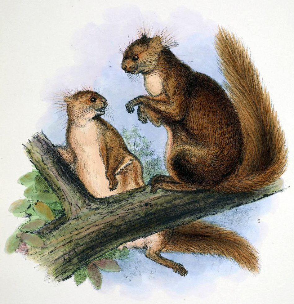 Hairy-footed flying squirrel Belomys pearsonii (pteromys pearsoni)